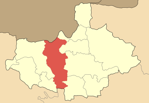 Locator map of Polykastrou municipality (Δήμος Πολυκάστρου) at Kilkis perfecture, Greece.